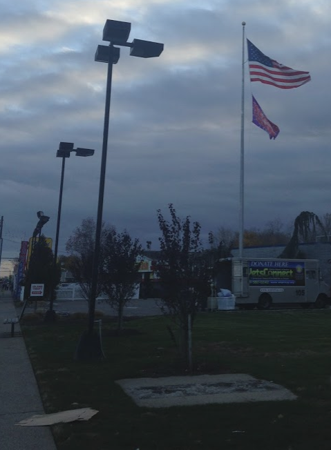 Medford, New York Route 112, sometimes called "Main Street," is by far the busiest area of Medford. With a small grocery store,a salon, a thrift store, and a diner. This area is one of the few with sidewalks, due to pedestrians shopping.